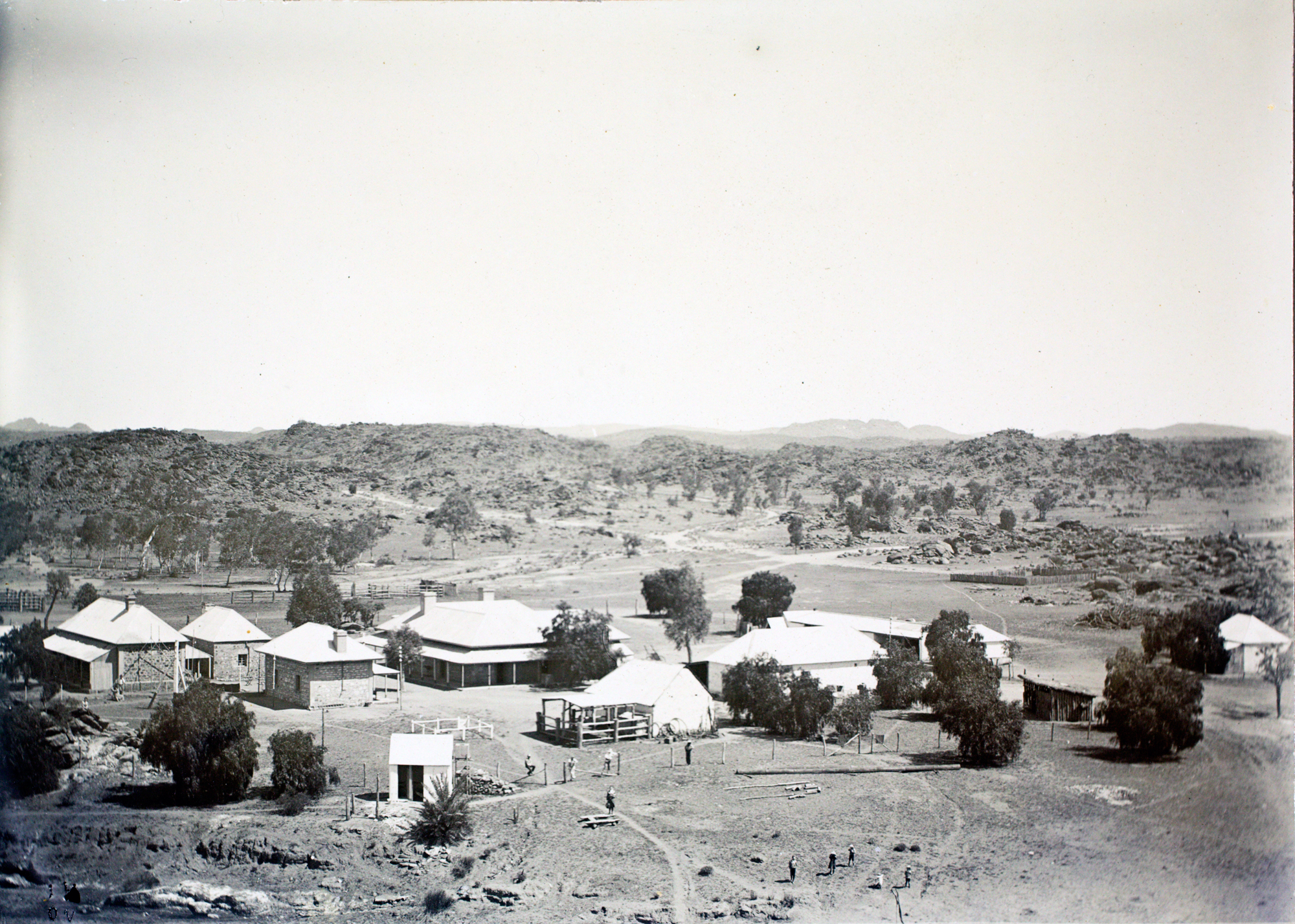 Alice Springs telegraph station buildings (PH0756-0002)